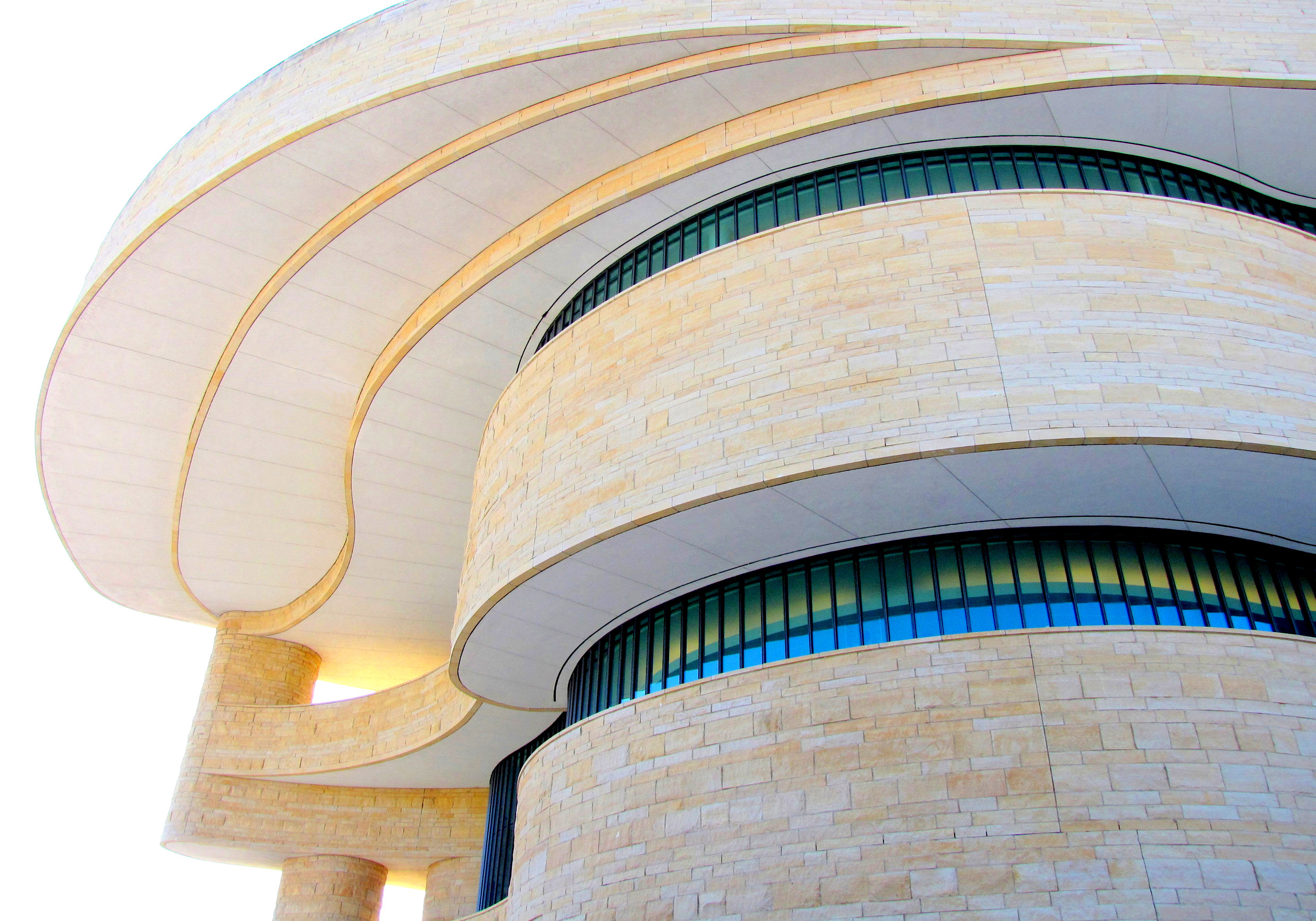 The National Museum of the American Indian building in Washington is a remarkable structure that combines flowing curvy lines with a strong vertical fortress-like shape. The primary designer was the Métis and Blackfoot Indian architect Douglas Cardinal.